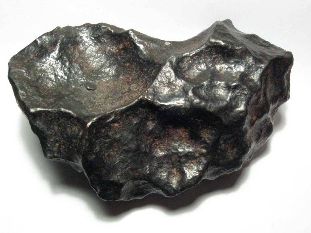 A 4.5kg individual meteorite from the Gibeon meteorite strwe field. Gibeon is a fine octahedrite, class IVA. This specimen is about 19cm wide.